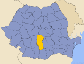 Location of Argeș County in Romania.